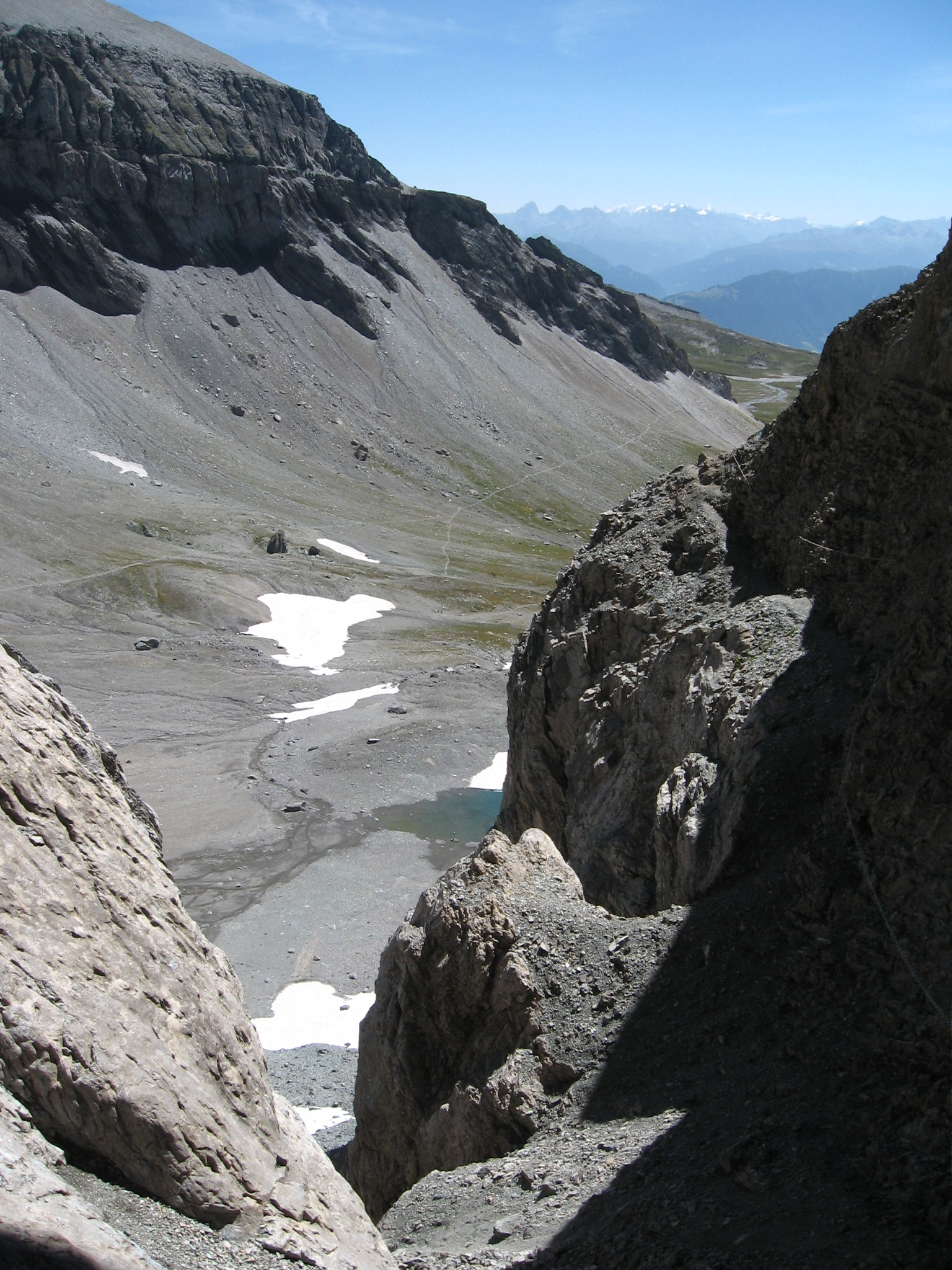 View from Martinsloch direction Flims